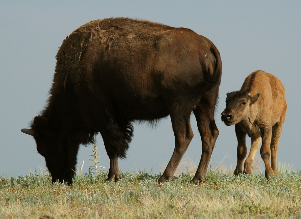 A mother bison and a calf grazing in the shortgrass prairie at Rocky Mountain Arsenal National Wildlife Refuge. Photo Credit: Rich Keen / DPRA